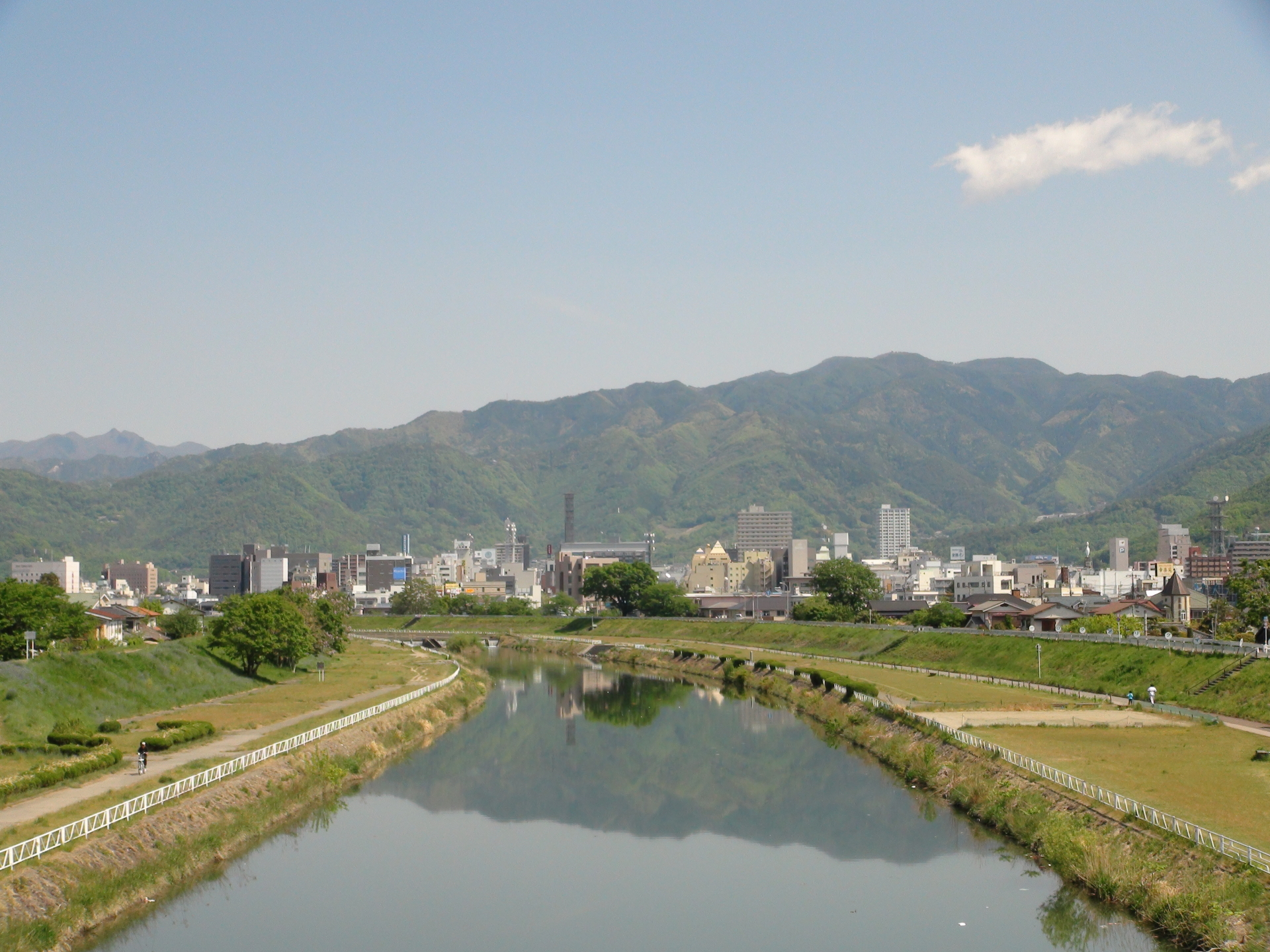 The Arakawa river and the Kofu city area which were photoed from the Senshu bridge